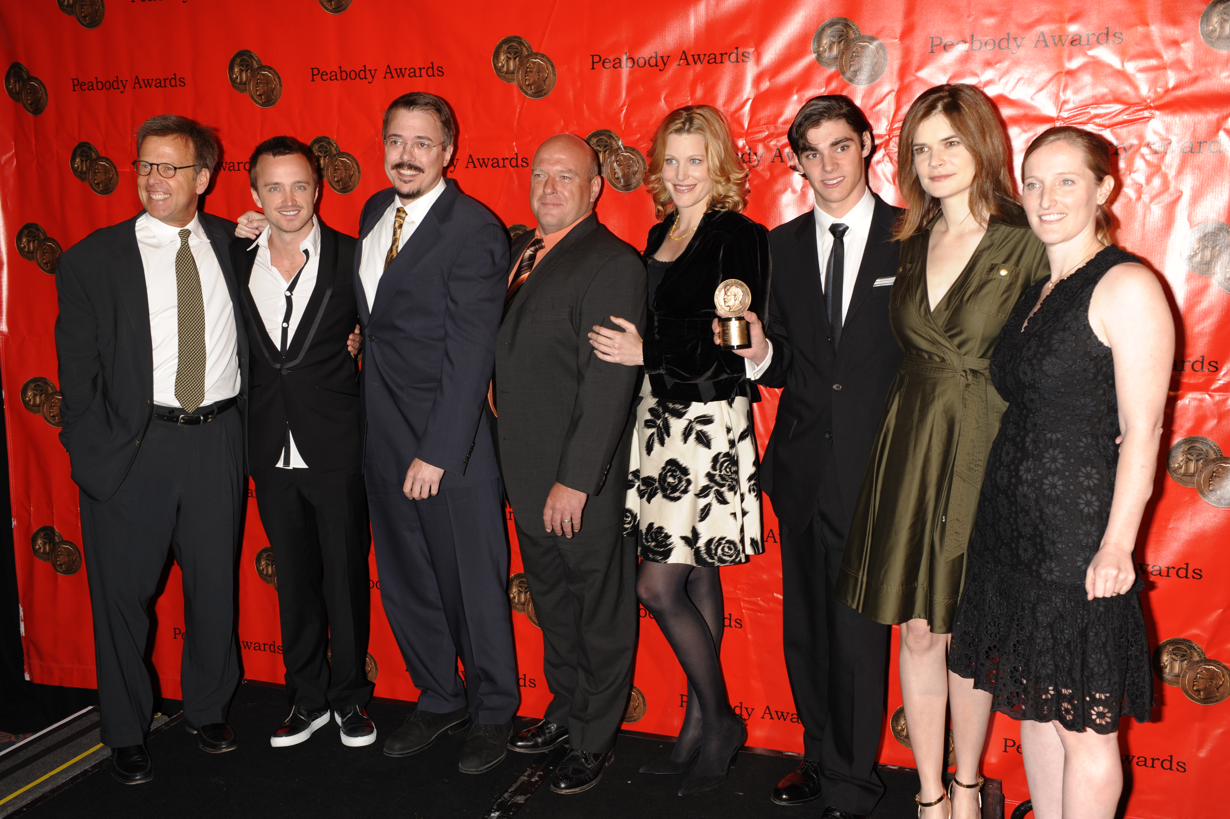 PHOTO CREDIT: ANDERS KRUSBERG / PEABODY AWARDS Mark Johnson, Aaron Paul, Vince Gilligan, Dean Norris, Anna Gunn, RJ Mitte, Betsy Brandt and Melissa Bernstein 68th Annual Peabody Awards Luncheon Waldorf=Astoria Hotel New York, NY USA May 18, 2009